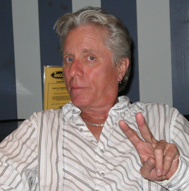 A 2006 photo of Jamie Oldaker, former drummer for Eric Clapton.